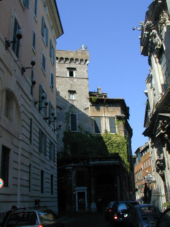 Rome, Campo Marzio's Monkey Tower on the Portuguese road